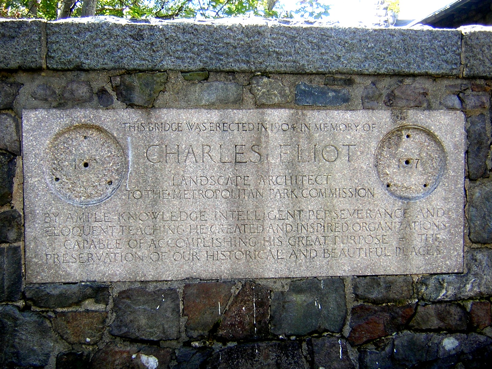 Eliot Memorial Bridge, Great Blue Hill, Milton, MA. Note that the bridge and the plaque were created in 1904 and are, therefore, in the public domain; the plaque appears to have been the target of metal theft.